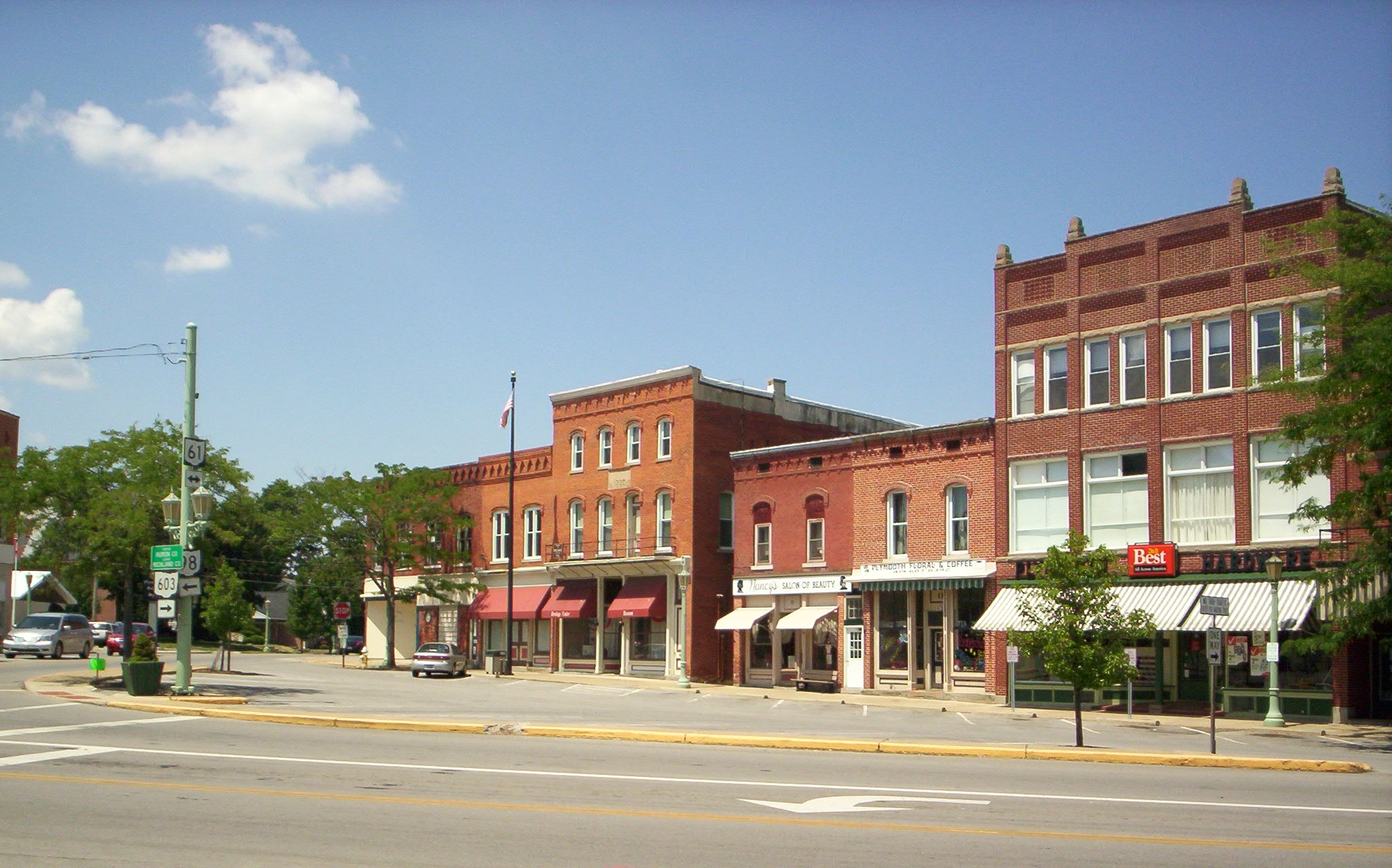 A view of downtown Plymouth, Ohio on East Main Street (Ohio 603) just east of the intersection of Plymouth and Sandusky Streets (Ohio 61).Plymouth Historic District